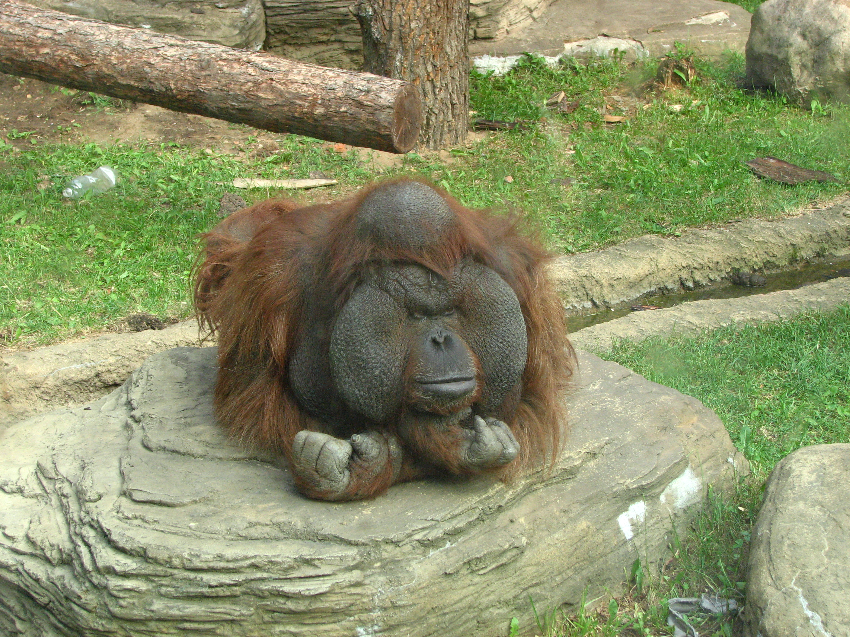 Moscow Zoo. Bornean Orangutan (Pongo pygmaeus; male).